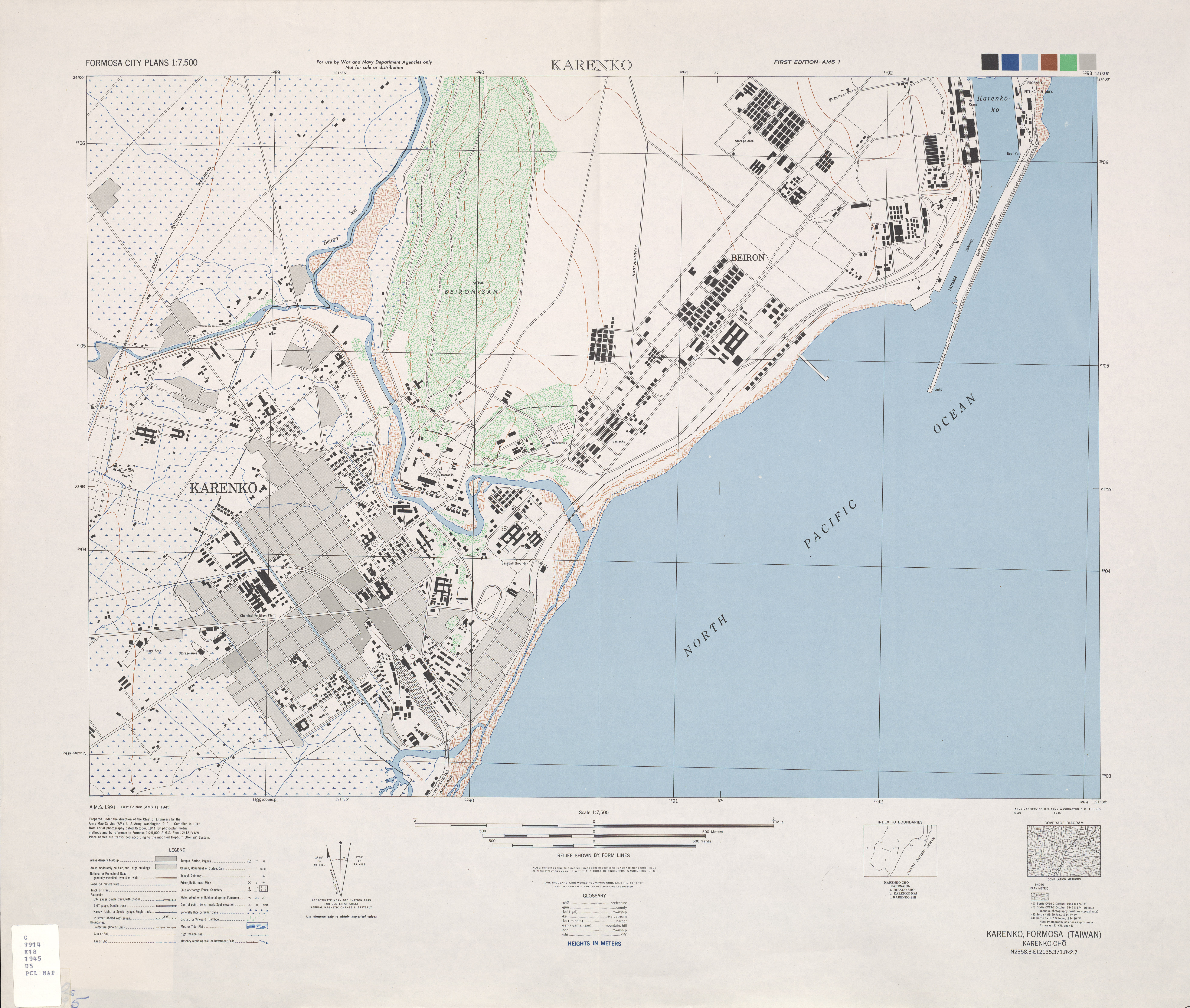 Karenko 1:7,500 1945